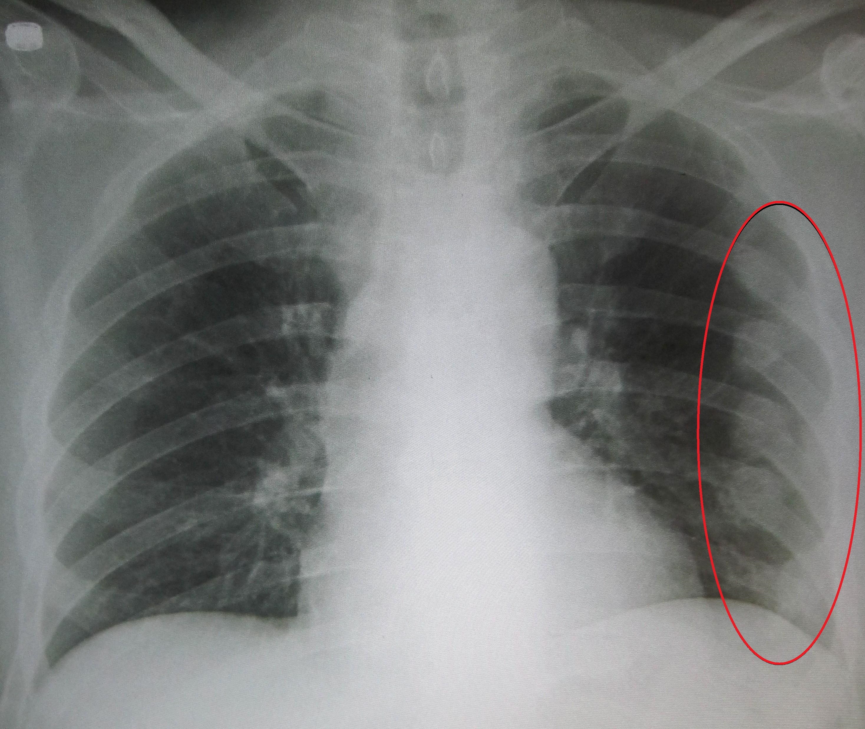 An X ray showing multiple old fractured ribs of the persons left side as marked by the oval.